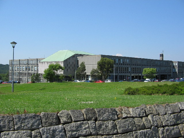 New County Hall The headquarters of Cornwall County Council in Truro